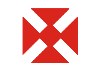 XIX Corps, Middle Military Division, 1st Division Badge